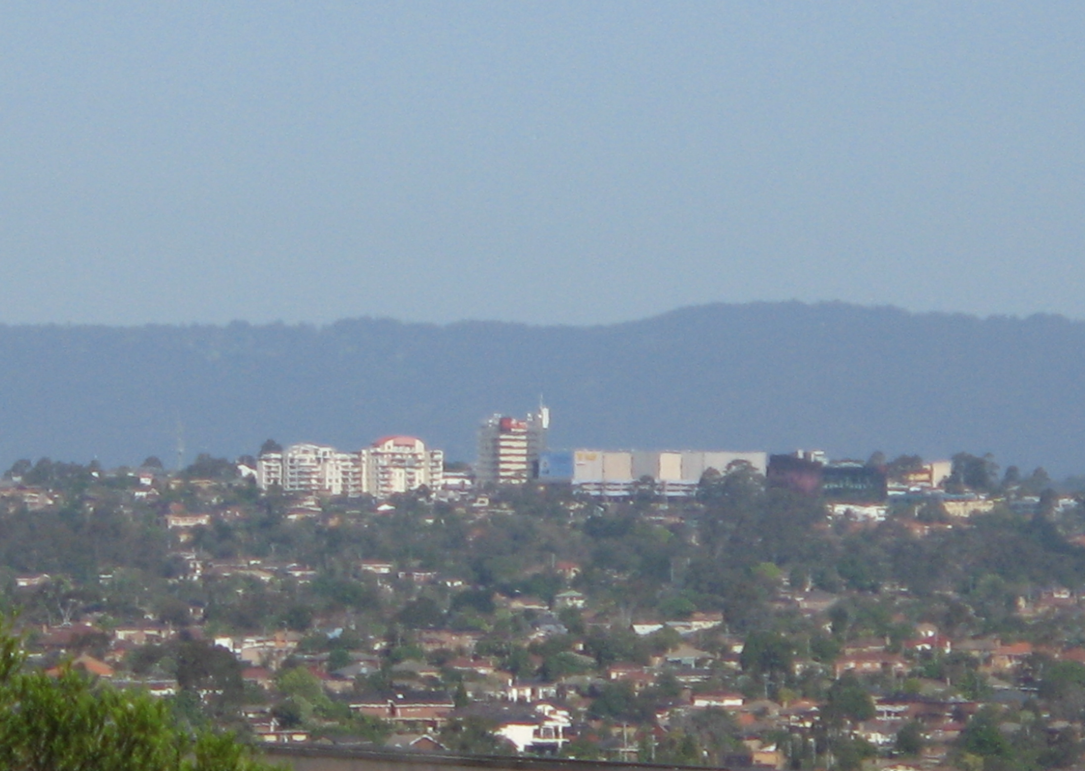 Doncaster Hill, showing Doncaster Shoppingtown and high-rise apartments on Williamsons Road, photo taken from Heidelberg atop the Bell-Banksia Link overpass, by myself, November 2008. The mountains in the background are part of the Dandenong Ranges near the town of Sassafras.